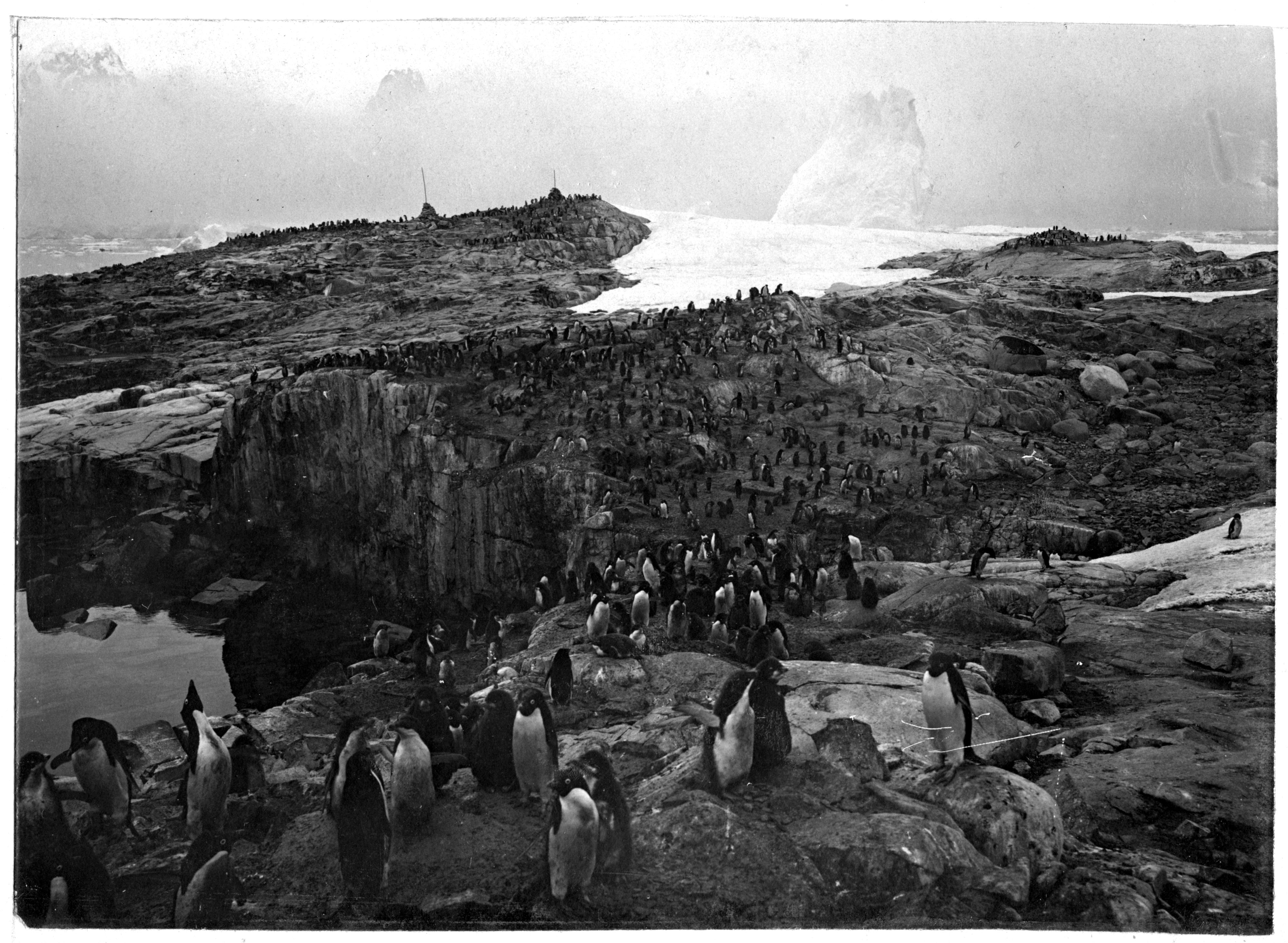 An Adelie penguin colony at Petermann Island during the Charcot Expedition taken from the same point as File:A gentoo penguin colony at Petermann Island, 2006.jpg. Image ID: fish9030, NOAA's Fisheries Collection Location: Antarctica, Petermann Island Photographer: Louis Gain Credit: NOAA NMFS SWFSC Antarctic Marine Living Resources (AMLR) Program